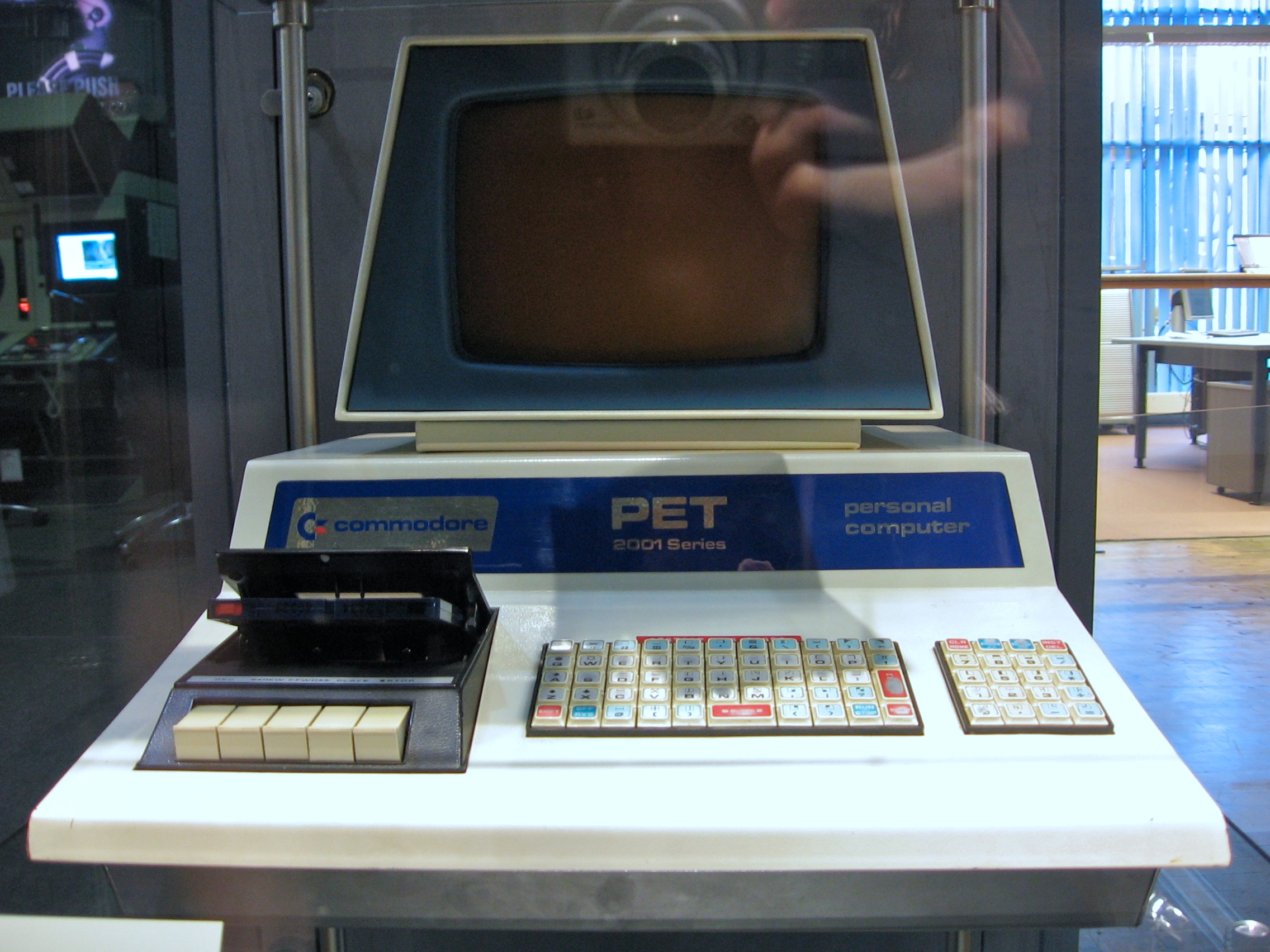 A Commodore PET 2001 Personal Computer with built-in Datasette.